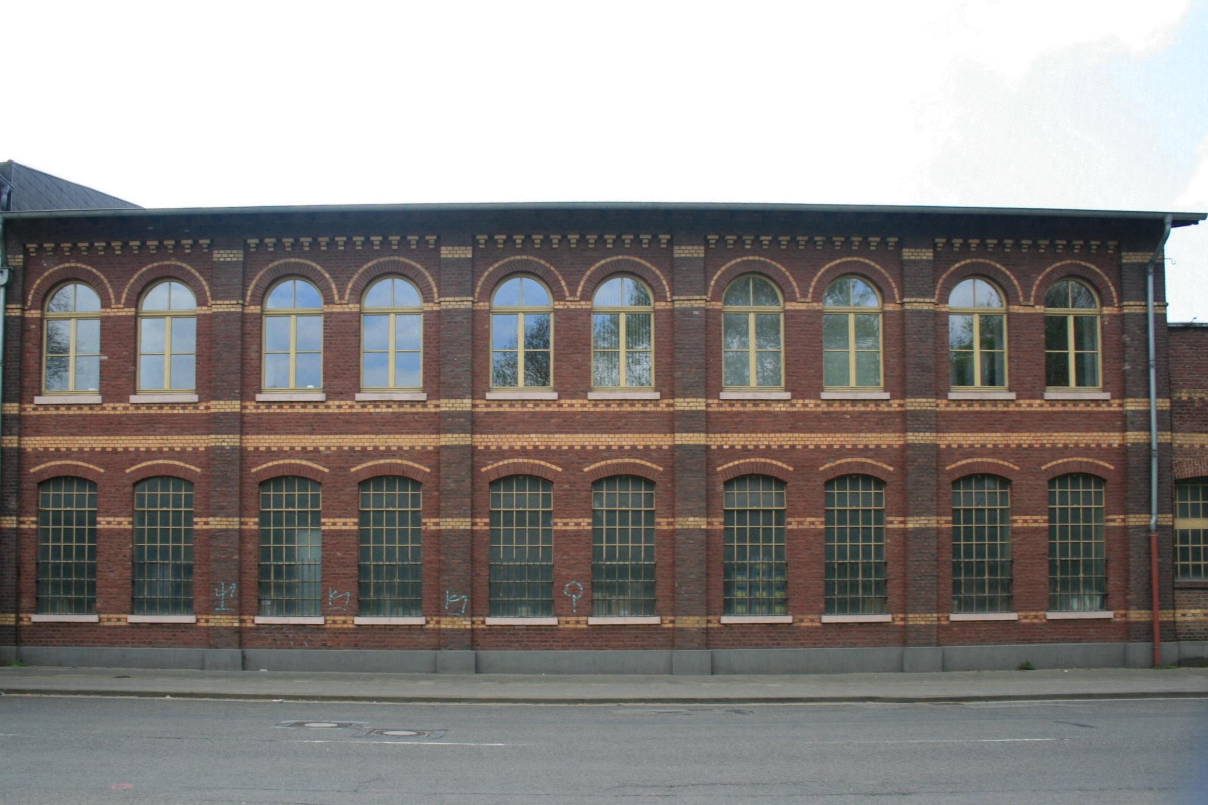 Cultural heritage monument No. 1/066b in Düren